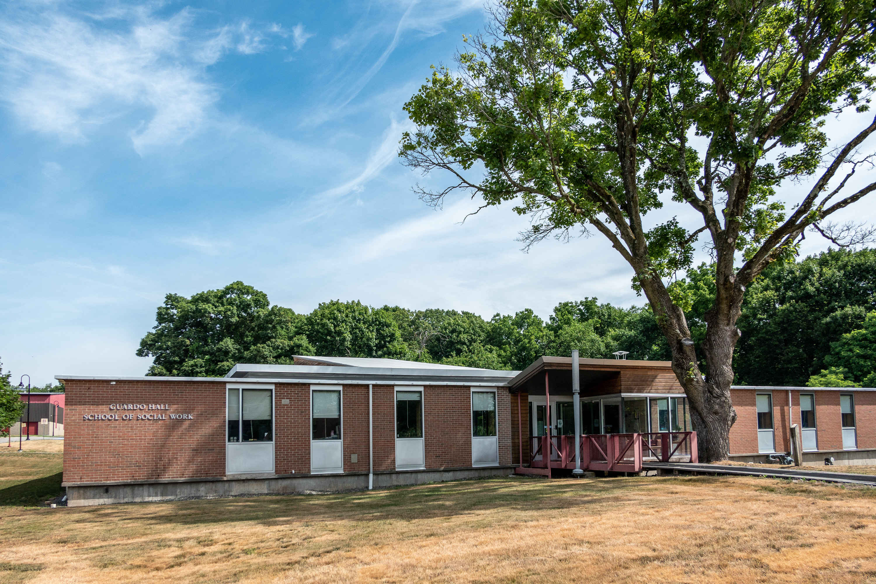 Rhode Island College Guardo Hall School of Social Work